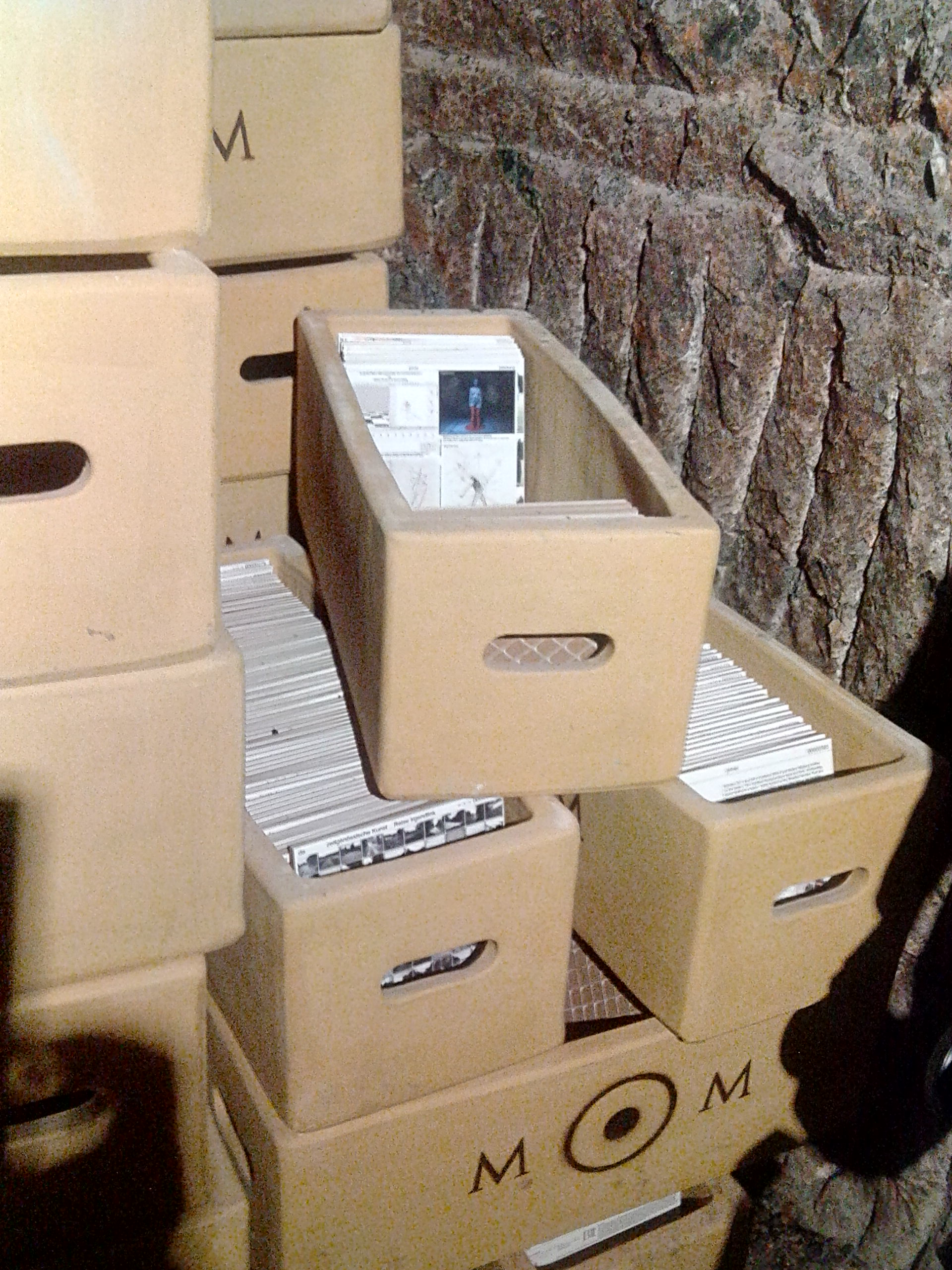 Opened containers in a cave